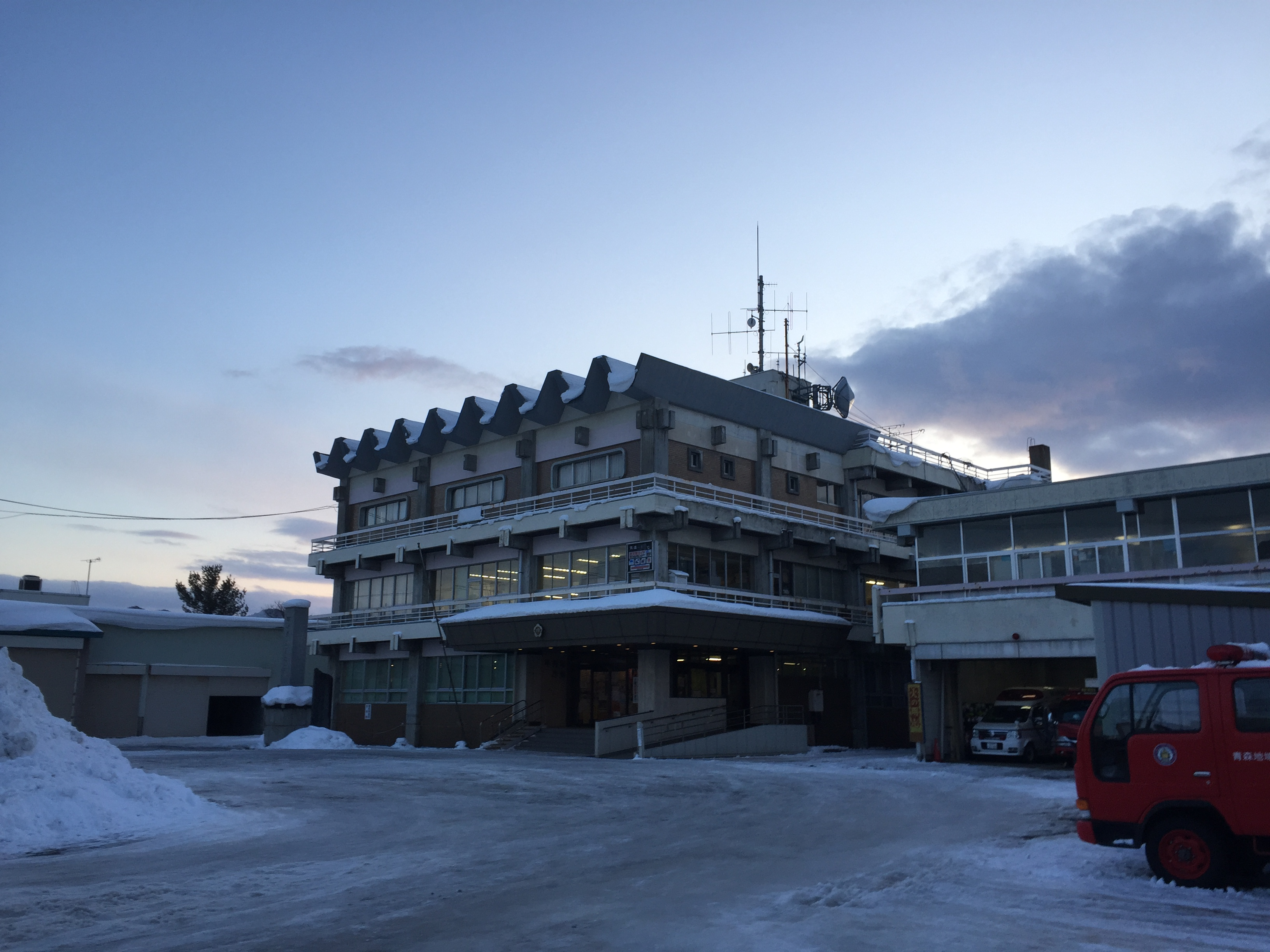 The town hall of Hiranai, Aomori on 16 February 2018